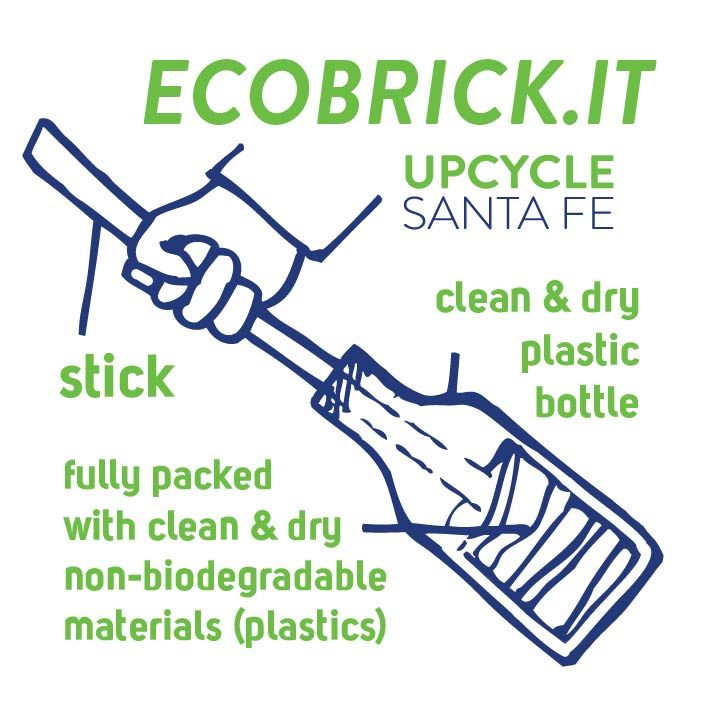 "Take a Plastic Bottle – Stuff it Full of plastic". All that is needed to make an Ecobrick is a plastic bottle or container of some sort (including paper / laminate milk cartons) and a stick to stuff and compress a whole bunch of random everyday plastic materials inside of it. To start an Ecobrick, take a plastic bottle, rinse it out and leave it to dry. Use a stick to stuff it layer by layer with all of the plastics, non-biodegradables, and synthetics that would otherwise be thrown into a waste bin and eventually the Earth.